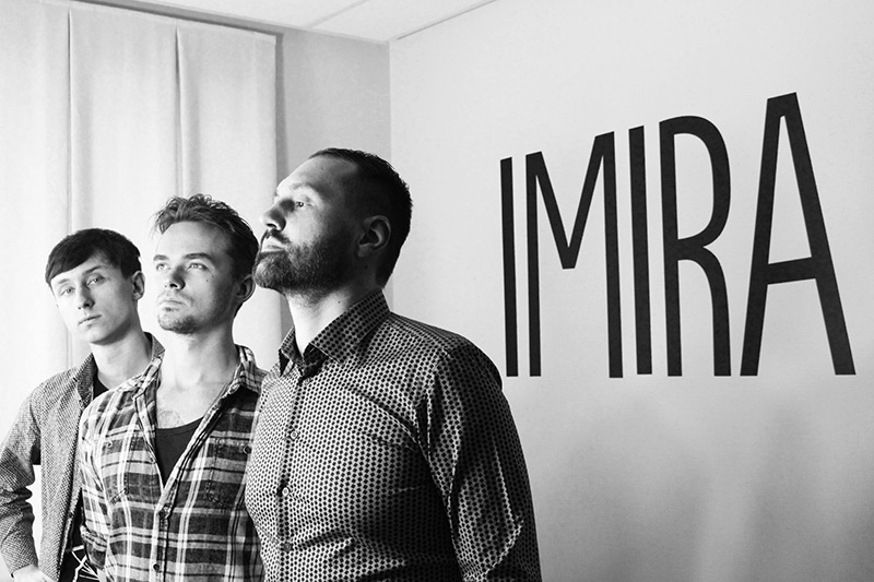 IMIRA on its own music studio